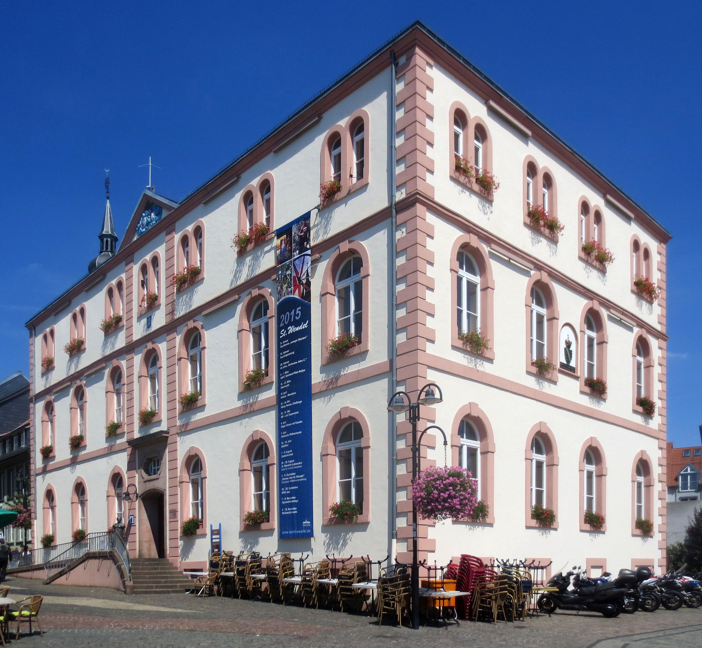 The former town hall of St. Wendel at Schloßstraße No. 7. The building was constructed ca. 1740 as a two-story structure and extended in the 19th century. It has been designated as a historic landmark. In addition, it is part of the protected historic buildings area Am Fruchtmarkt/Am Schloßplatz.